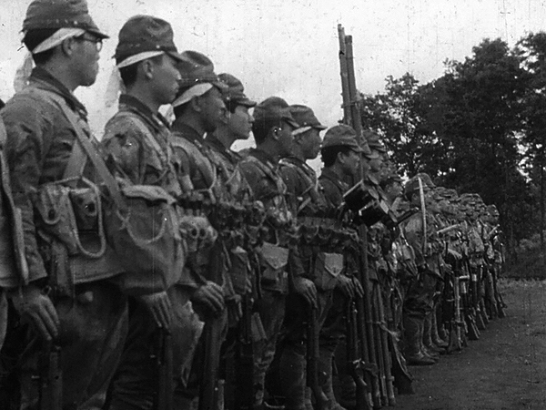 Giretsu Kukeitai - parade before departure to Okinawa. May 24, 1945.